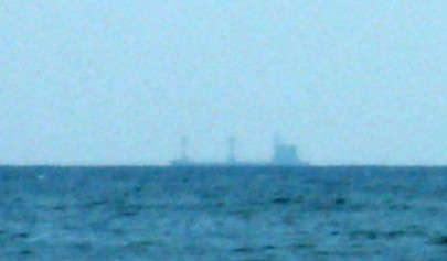 Ship at horizon: due to earth curvature lower part is invisible.